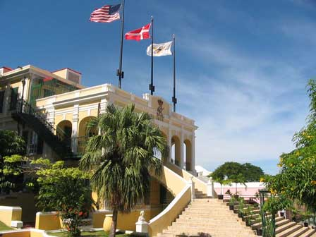 The U.S. Virgin Islands Governor's Mansion (known as Government House) is the official residence of the Governor of the United States Virgin Islands.